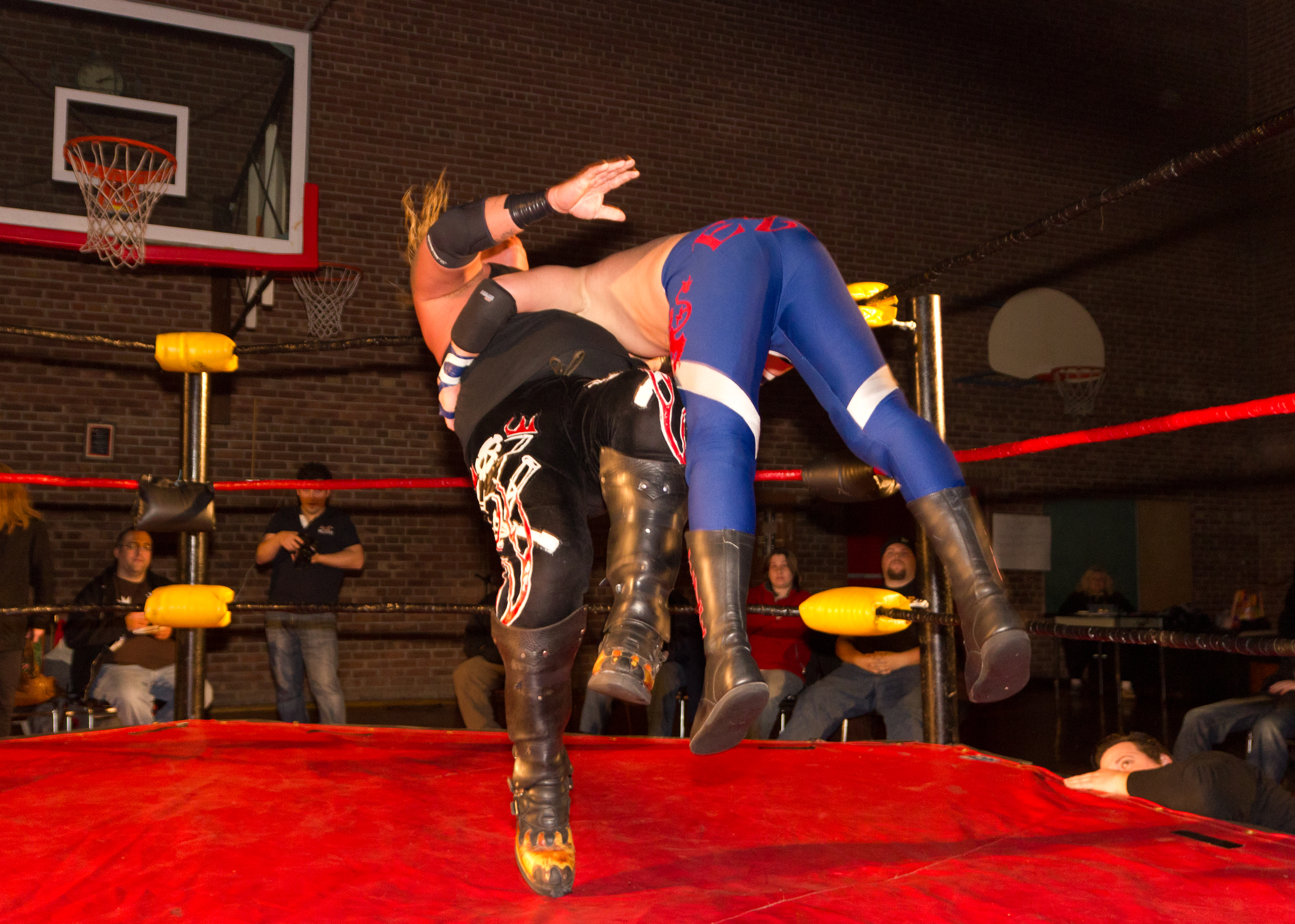 Pro wrestler Gangrel (real name David Heath) performing his lifting DDT finisher on "EZ-E" Eric Cairnie